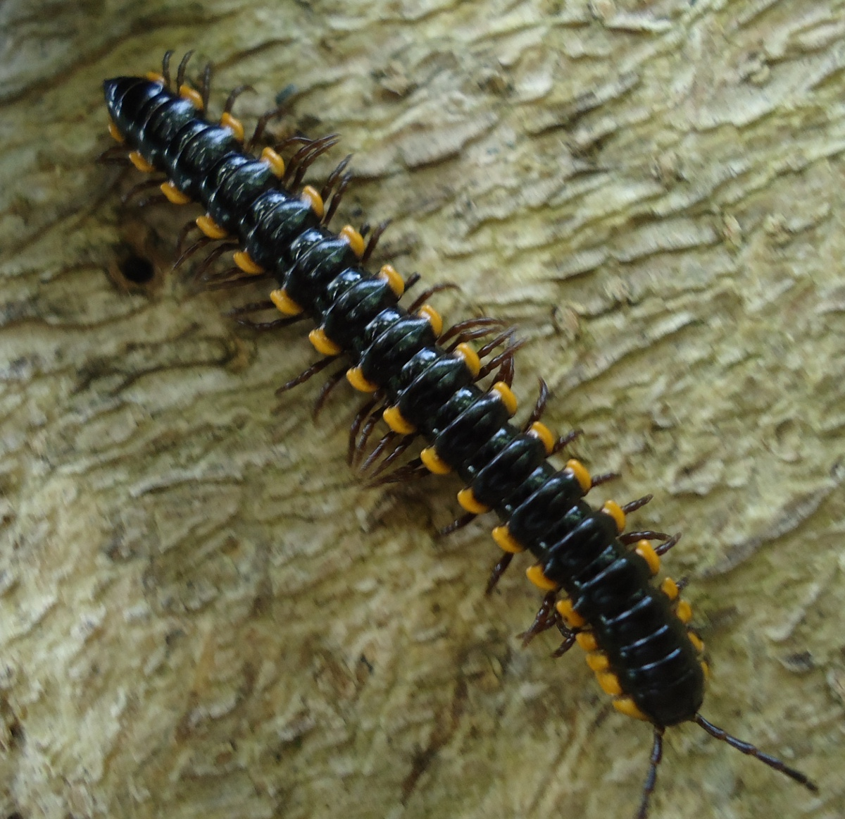 Asiomorpha coarctata, an Asian millipede commonly mistaken for the N. American Harpaphe haydeniana because of the similarity in coloration. A good way to tell them apart is to look at the paranota - the lateral edges of each segment. In Asiomorpha, the paranota are sharp edged and acute, pointing backward. This specimen is from the Philippines.